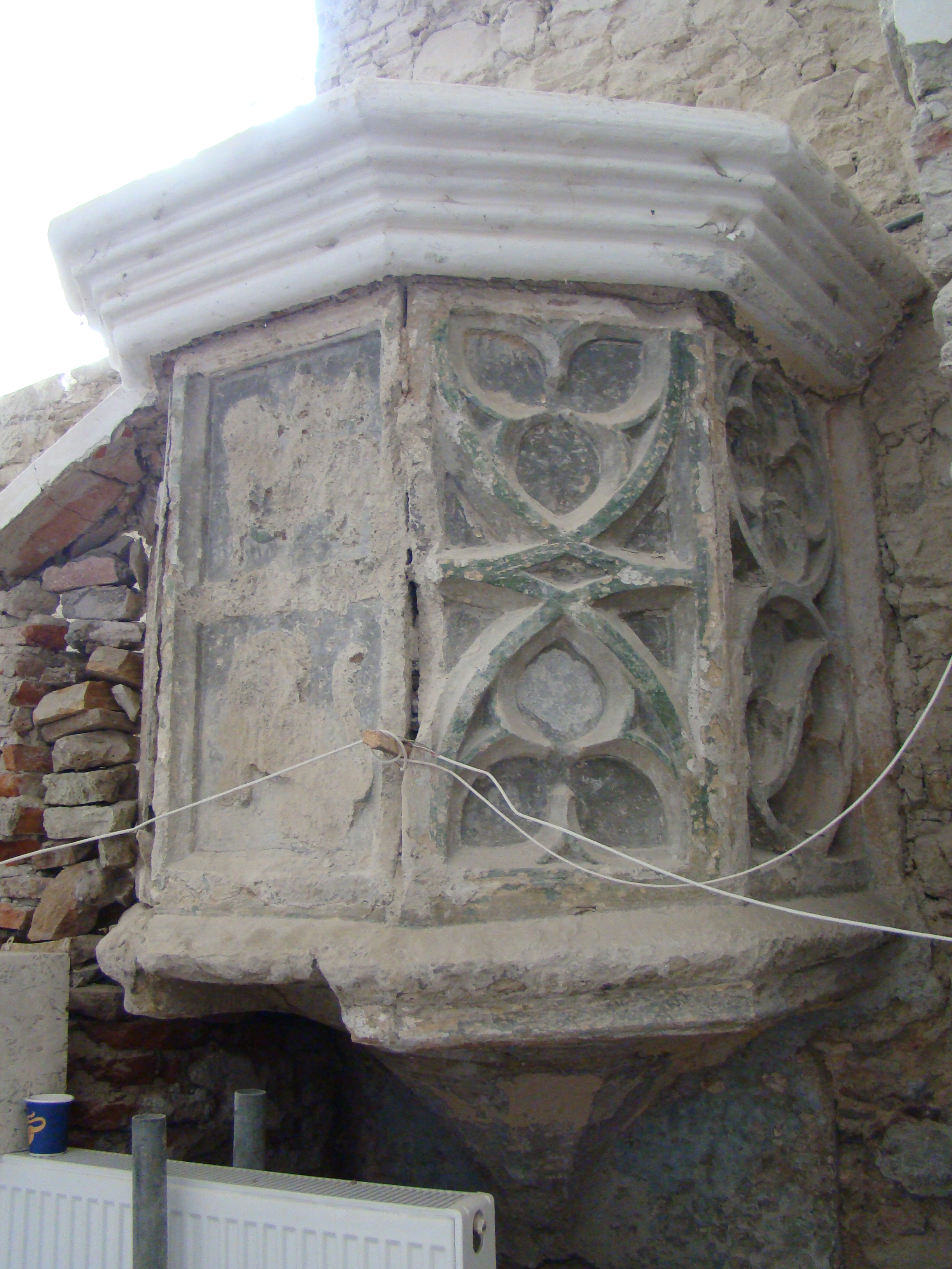 Saint Demetrius church in Dipșa (former lutheran church), Bistrița-Năsăud county, Romania